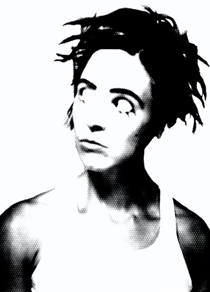 Rachel Carns, from personal archives